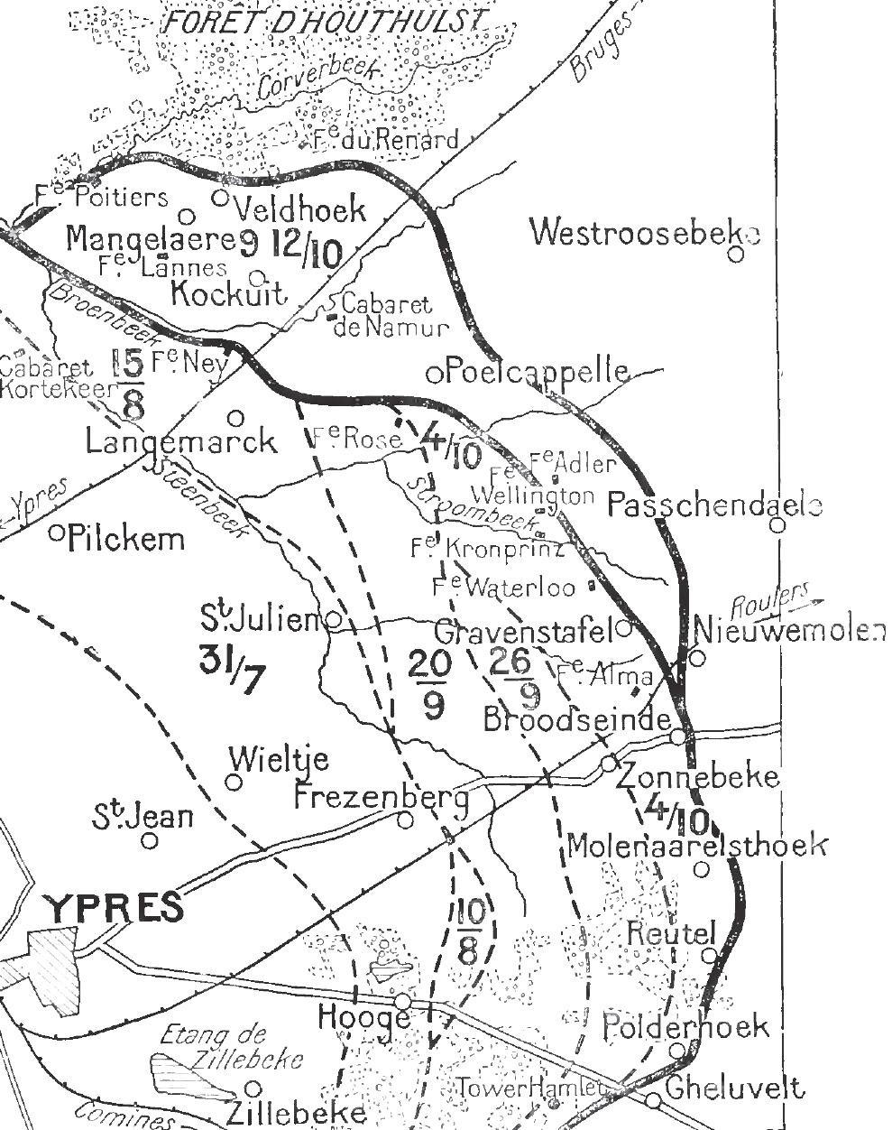 Diagram of Anglo-French advances 9-12 October